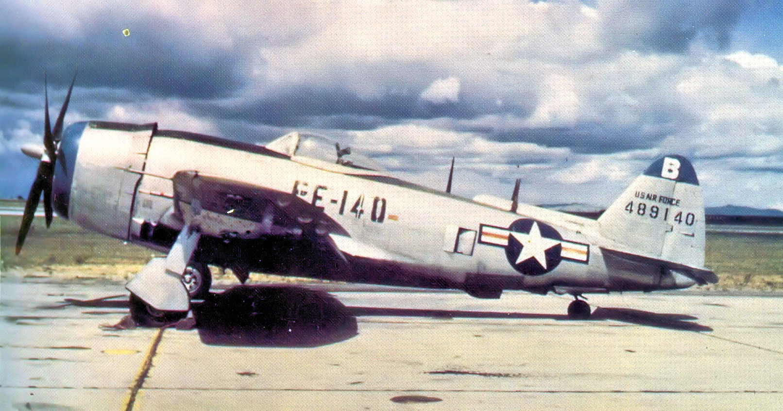 332d Fighter Group - F-47N 44-89140 at Lockbourne AFB, Ohio, 1948